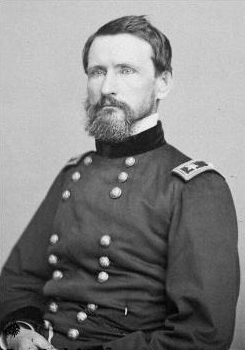 John J. Peck, Union General. Source:[1]